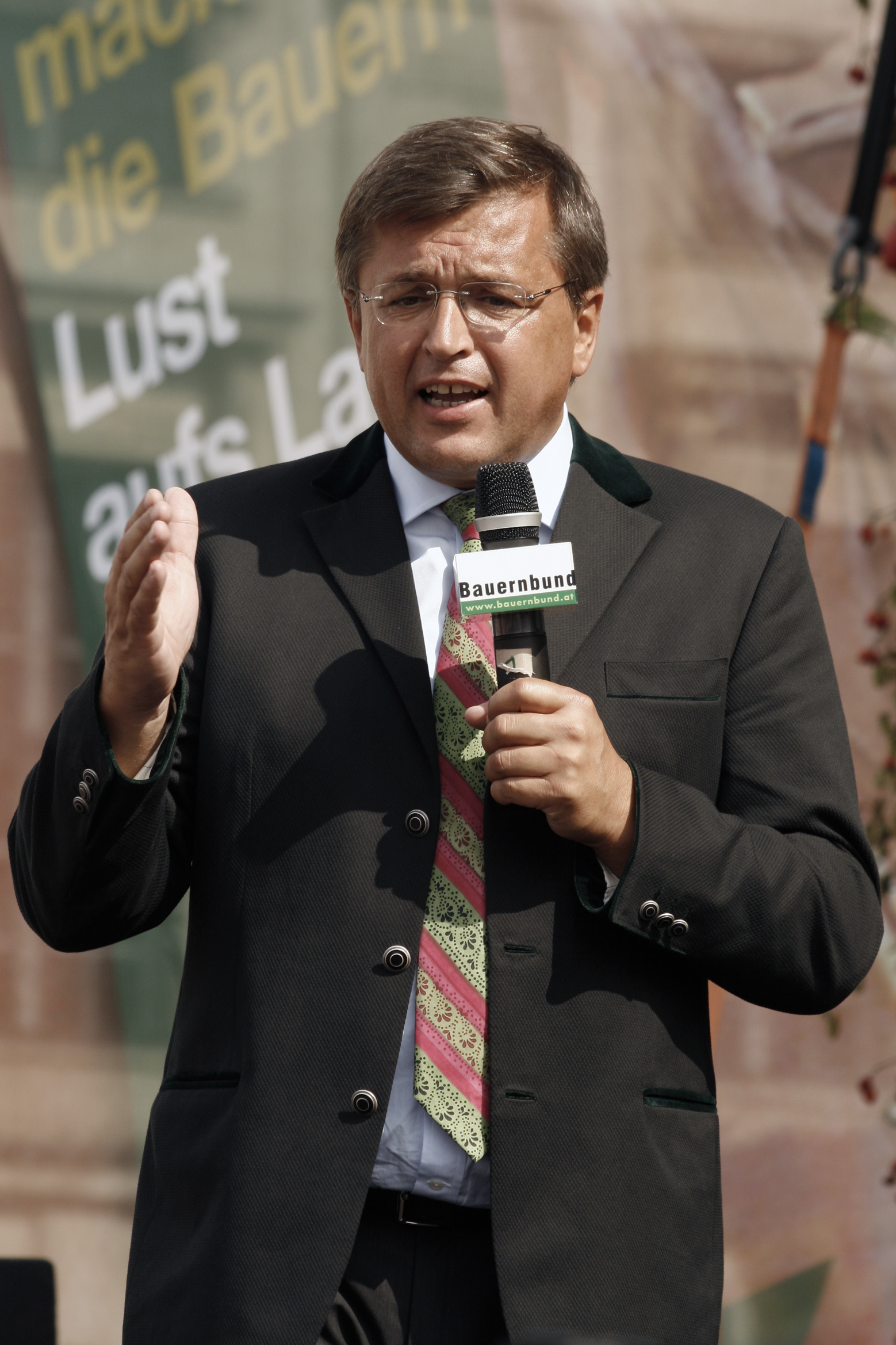 Austrian politician Fritz Grillitsch at the annual harvest festival of the ÖVP-Bauernbund at the Heldenplatz in Vienna)